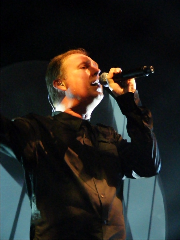 Paul Humphreys – 30th Anniversary "Messages" – Newcastle City Hall – 30 September, 2008.